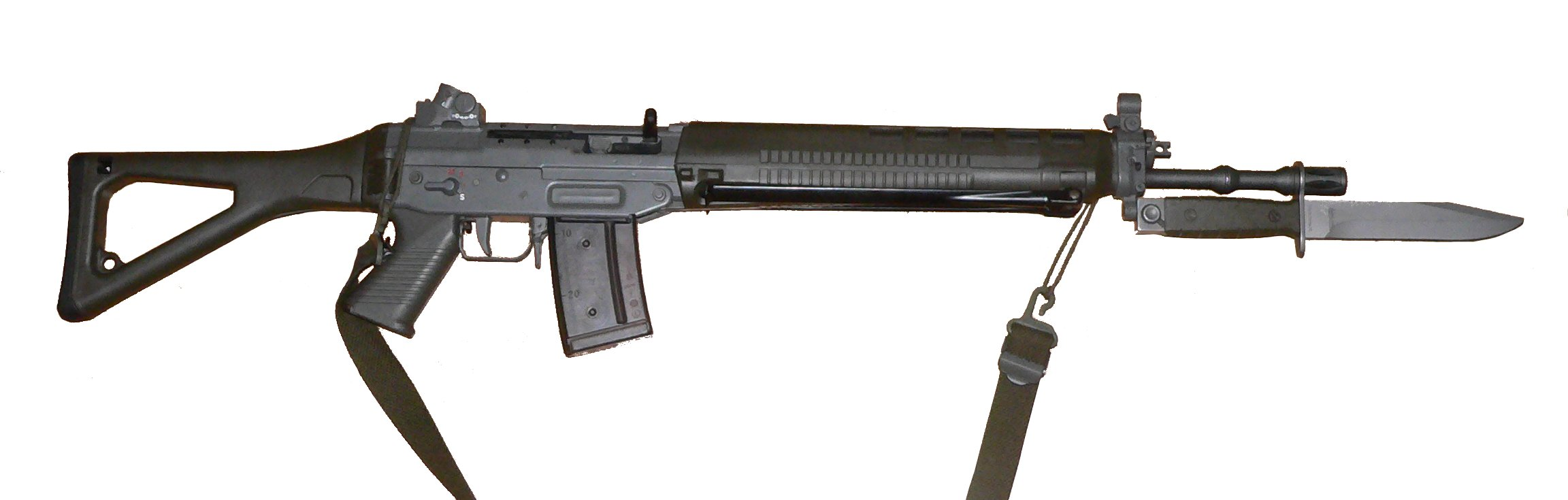 Swiss army Sig 550 rifle with sling (enlarged with shoe laces to allow firing from the hip), fitted with bayonet. Normally, Swiss army regulations forbid removal of a bayonet from its scabbard in peacetime, but we'd do anything for Wikipedia. Note that the bayonet is not sharpened, which is done only during wartime.